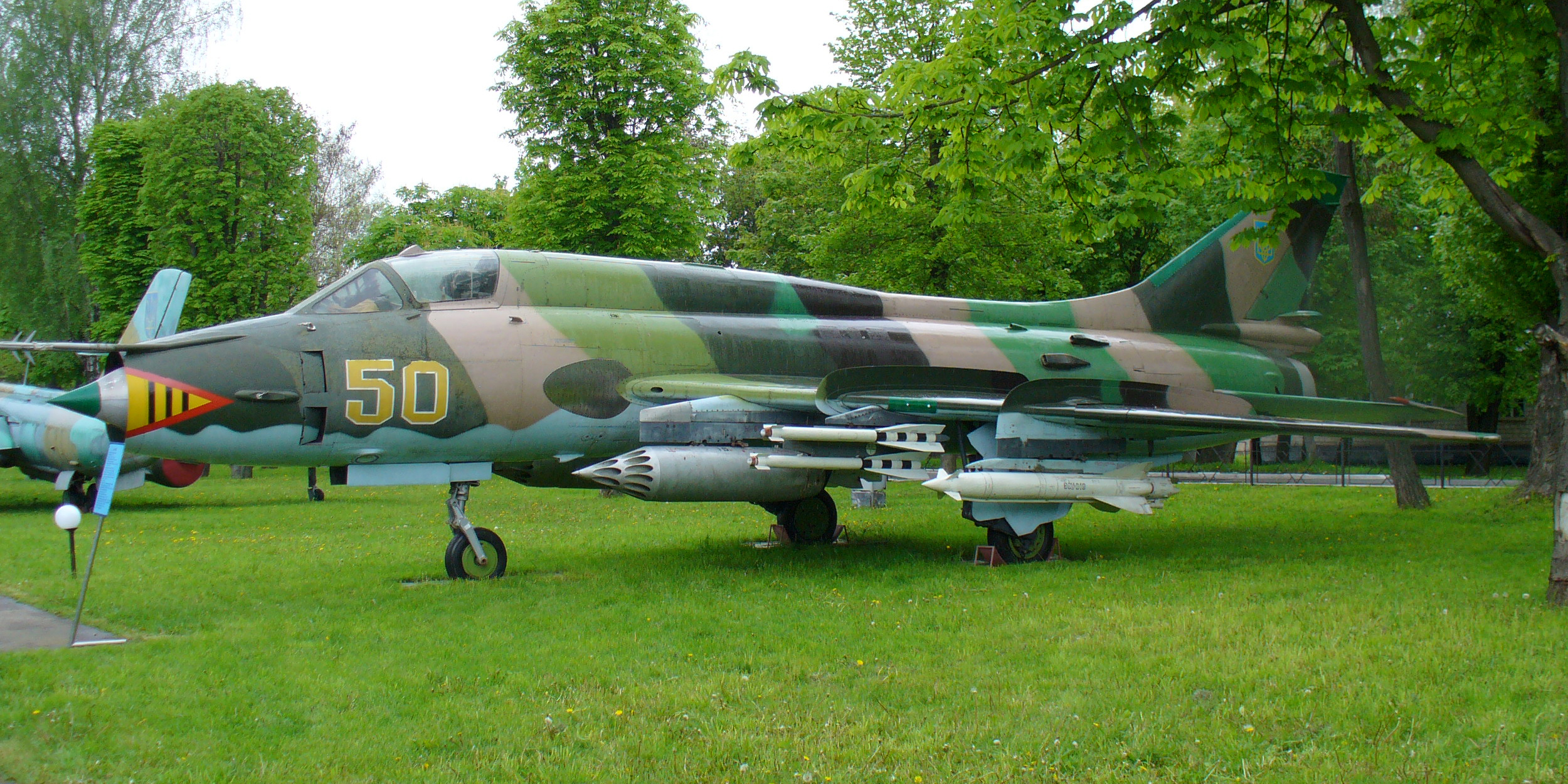 The Sukhoi Su-17M3 (NATO reporting name: "Fitter-H"), a Soviet attack aircraft. Ukrainian Air Force Museum in Vinnitsa.